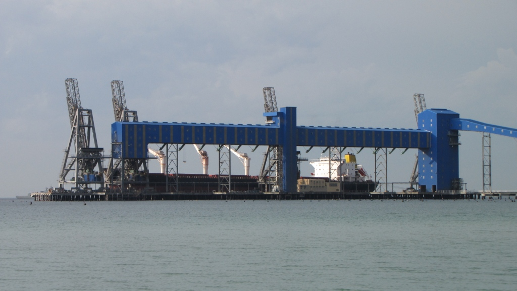 CBH grain loading facility - Kwinana, Western Australia.